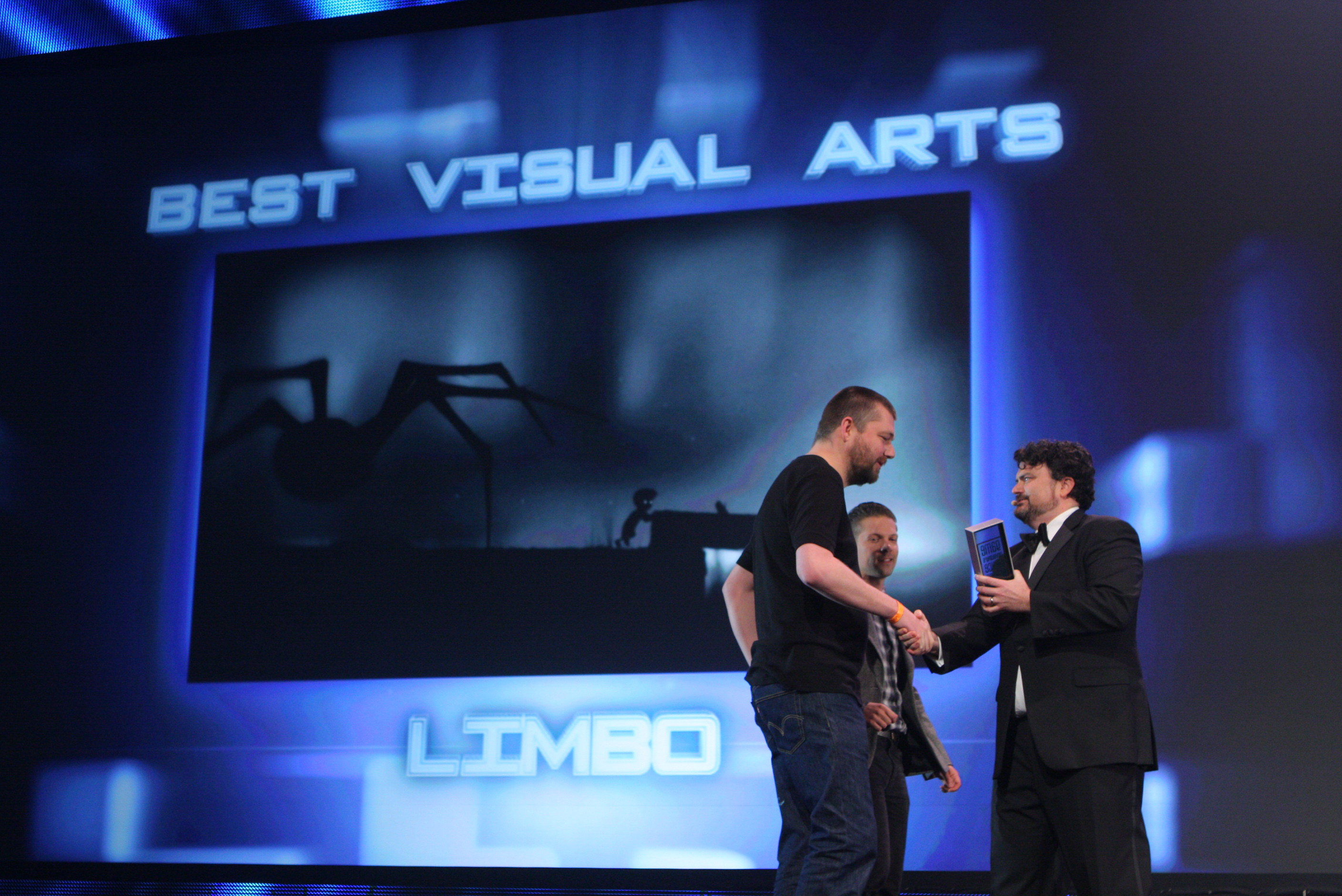 Hall D North Awards VIP Reception (BAEP)